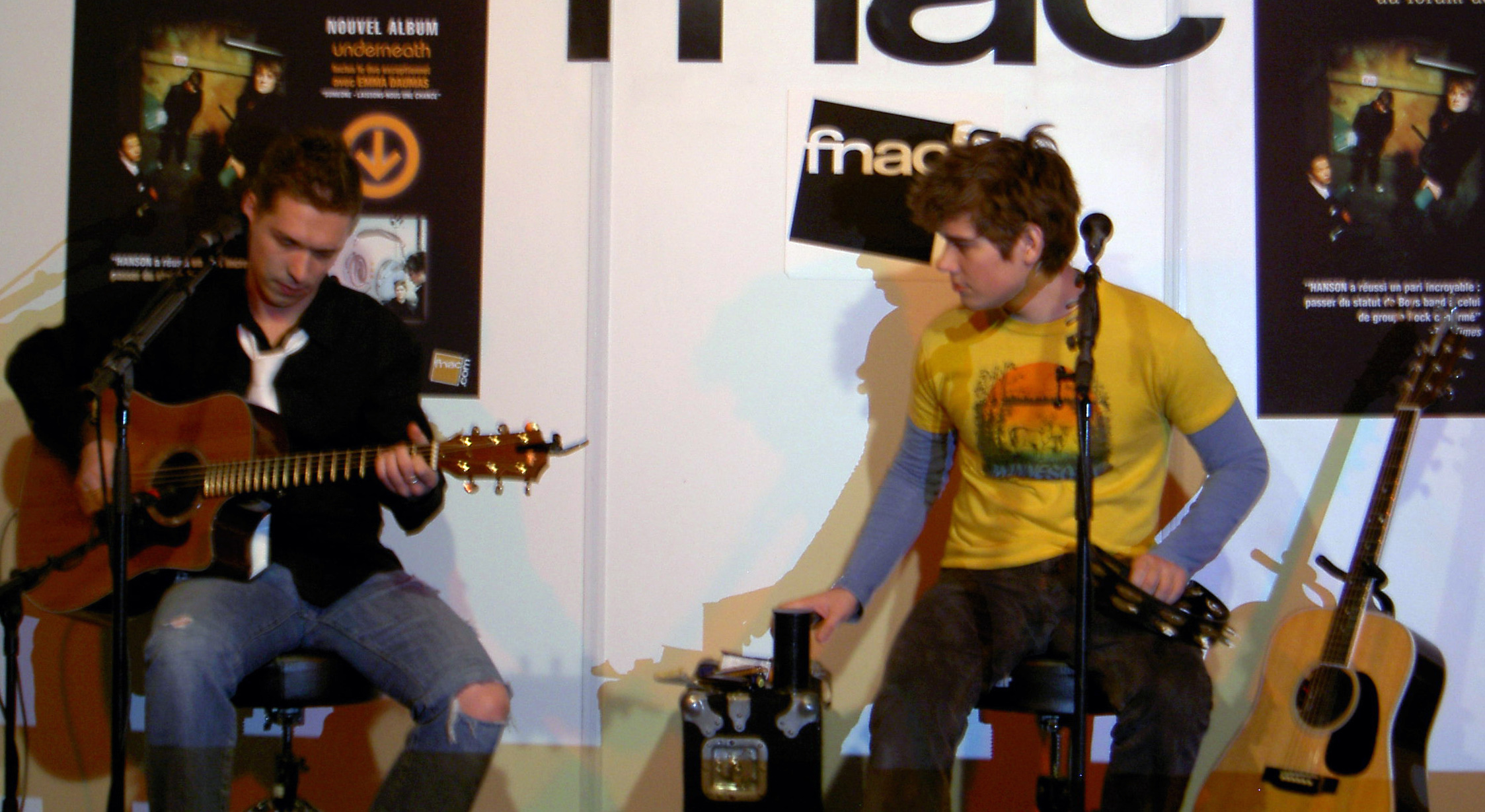 Isaac and Zac Hanson live in Fnac Montparnasse Paris in February 2005.